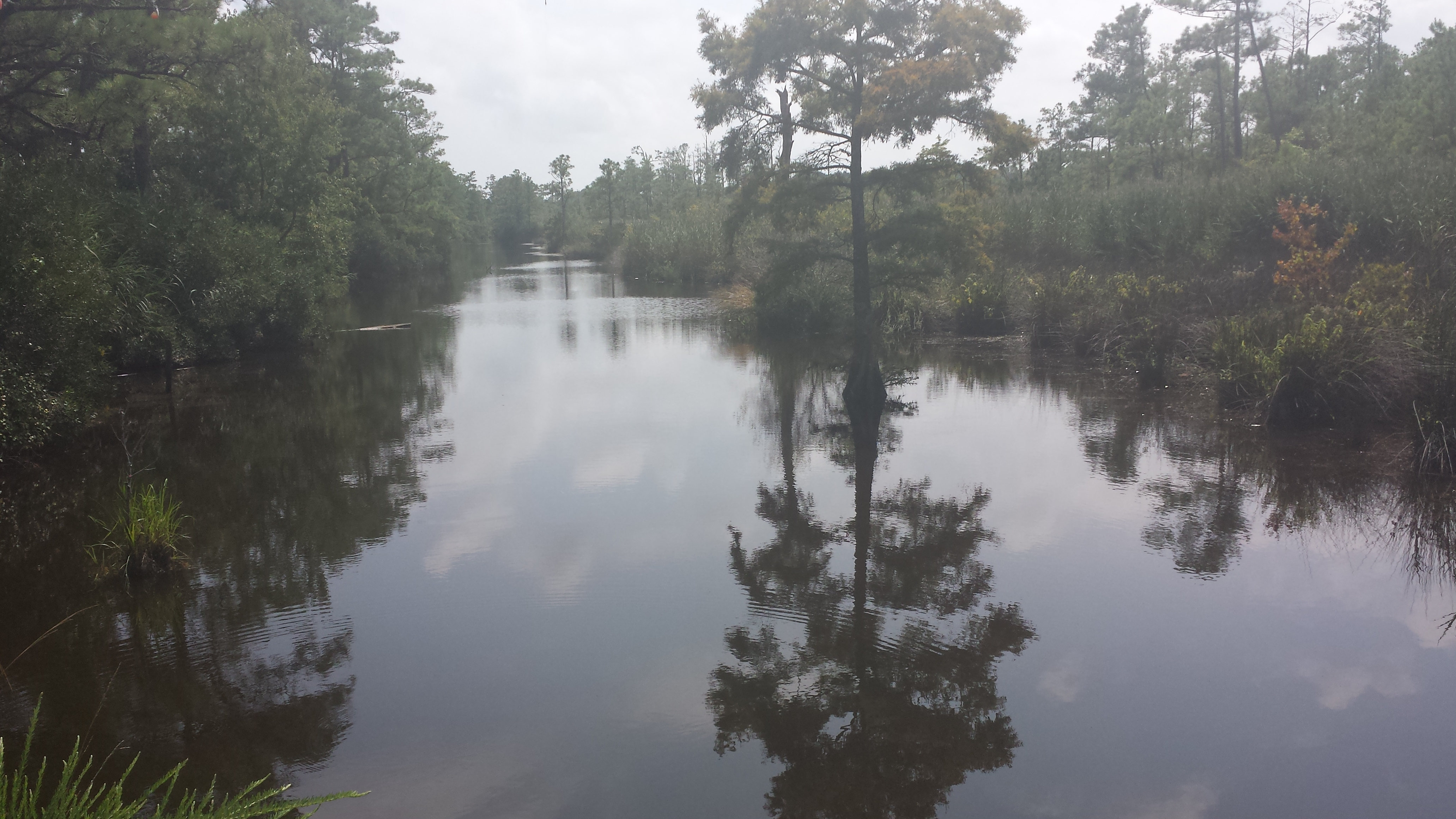 One of the many creeks and marshes in Pungo, Virginia. This creek intersects with Muddy Creek Road.